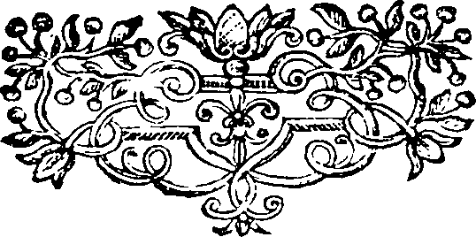 Fleuron from book: A choice collection of prayers, &c. Divided into two parts. Part I. Containing, a manual of devout prayers, and other Christian Devotions. Part II. The Holy Mass in Latin and English, as also the Mass for the Dead in English. The Vespers or Evening-Song; with the Antiphons, Psalms and Hymns, for all Sundays and Festivals of Obligation: the method of saying the rosary.